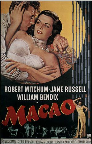 Description: Low-res image of original poster for the film Macao (1952), featuring stars Robert Mitchum and Jane Russell.